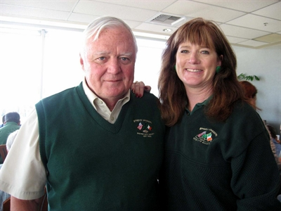 Jack Geraghty (mayor of Spokane, Washington, 1994-1998) and his wife, Kerry Lynch at Irish Day at the Races at Emerald Downs in Auburn, Washington, 2007.